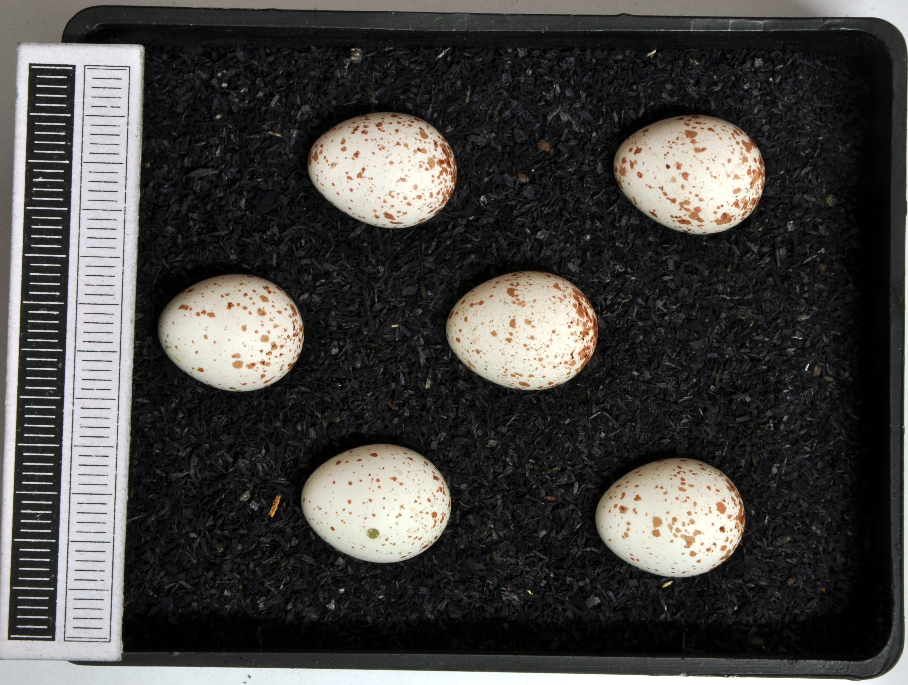 European crested tit Parus cristatus, egg, Coll. Museum Wiesbaden, Origin: Aßling, Bavaria, 12.05.1975, leg. W. Abelmann